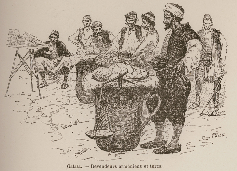 Edmondo de Amicis. Constantinople ouvrage traduit de l’Italien avec l’autorisation de l’Auteur par Mme J. Colomb et illustré de 183 dessins pris sur nature par C. Biseo, Paris, Hachette, 1883.